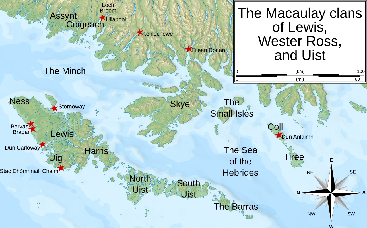 A map showing some of the key places dealing with the Macaulays clans from Lewis, Uist, and Wester Ross that are mentioned in the article: Macaulay of Lewis.